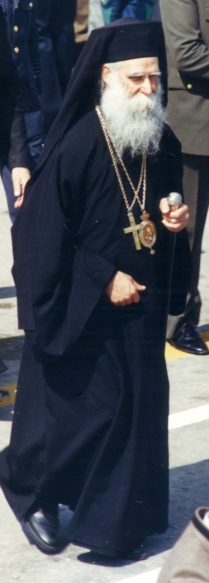 Bishop Meletios Kalamaras in 1980 at Preveza.